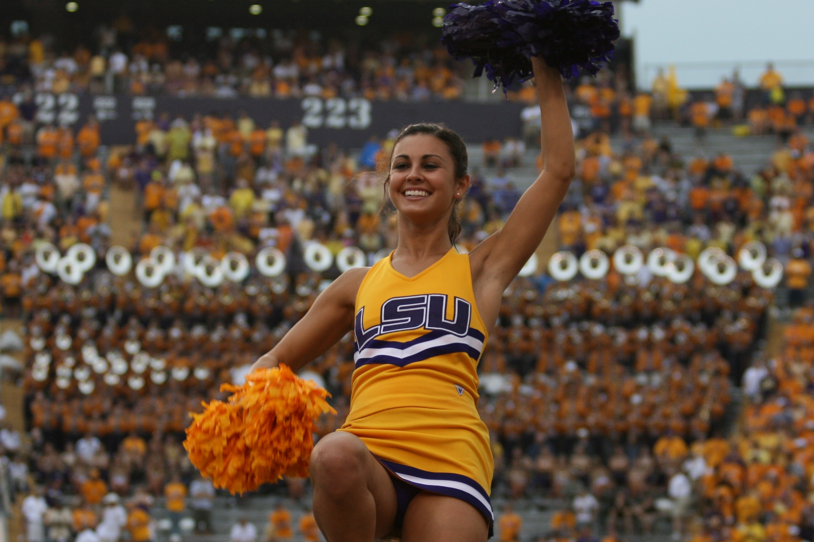 Photo of LSU cheerleader taken by Jeff at an LSU football game in Tiger Stadium.